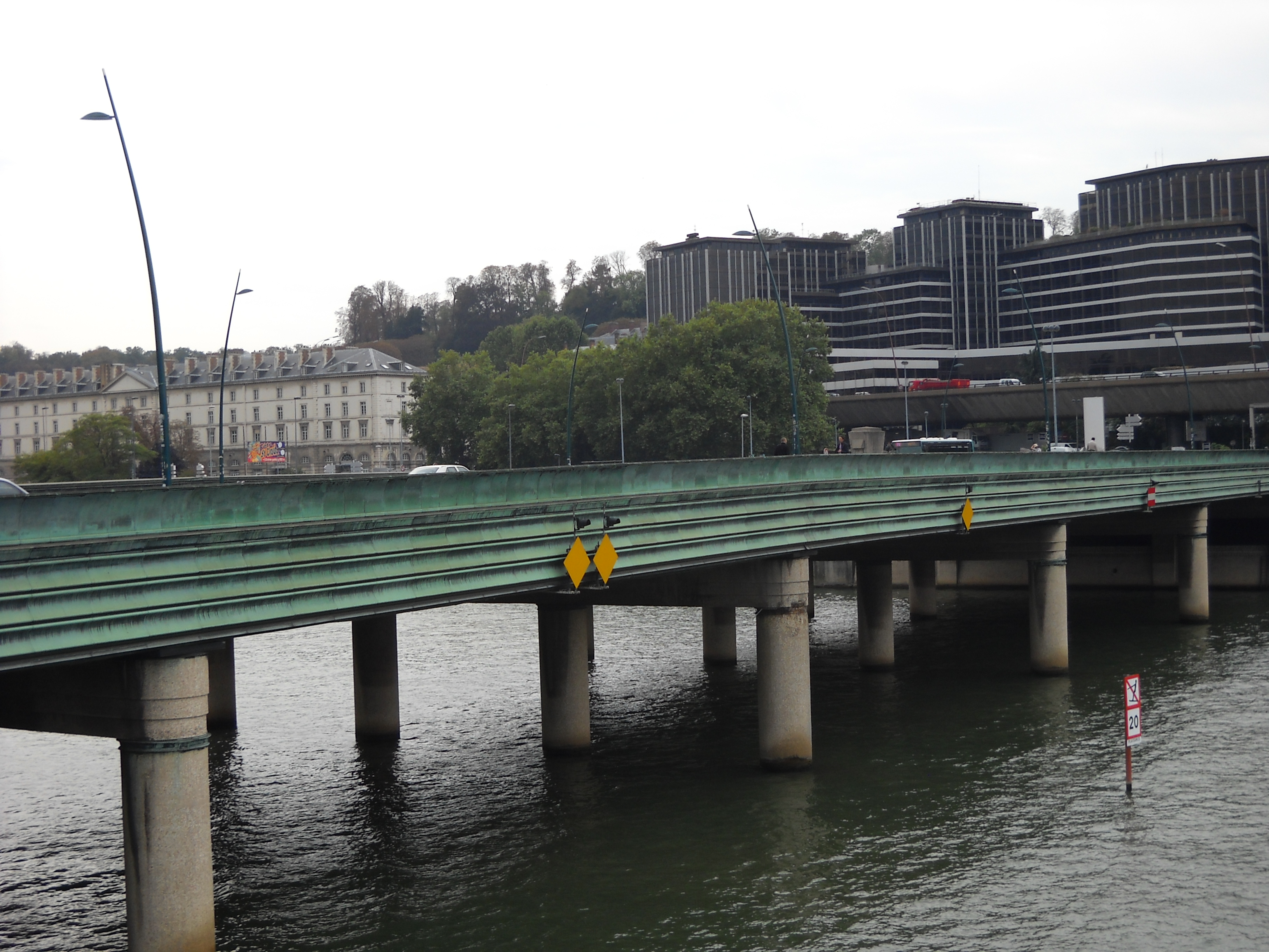 Bridge linking Saint-Cloud to Boulogne-Billancourt over the Seine river, in Hauts-de-Seine, France.